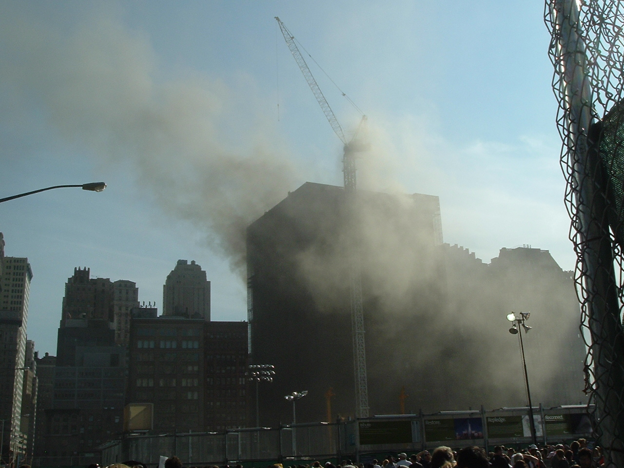 A view of the Deutsche Bank Building fire on August 18, 2007.